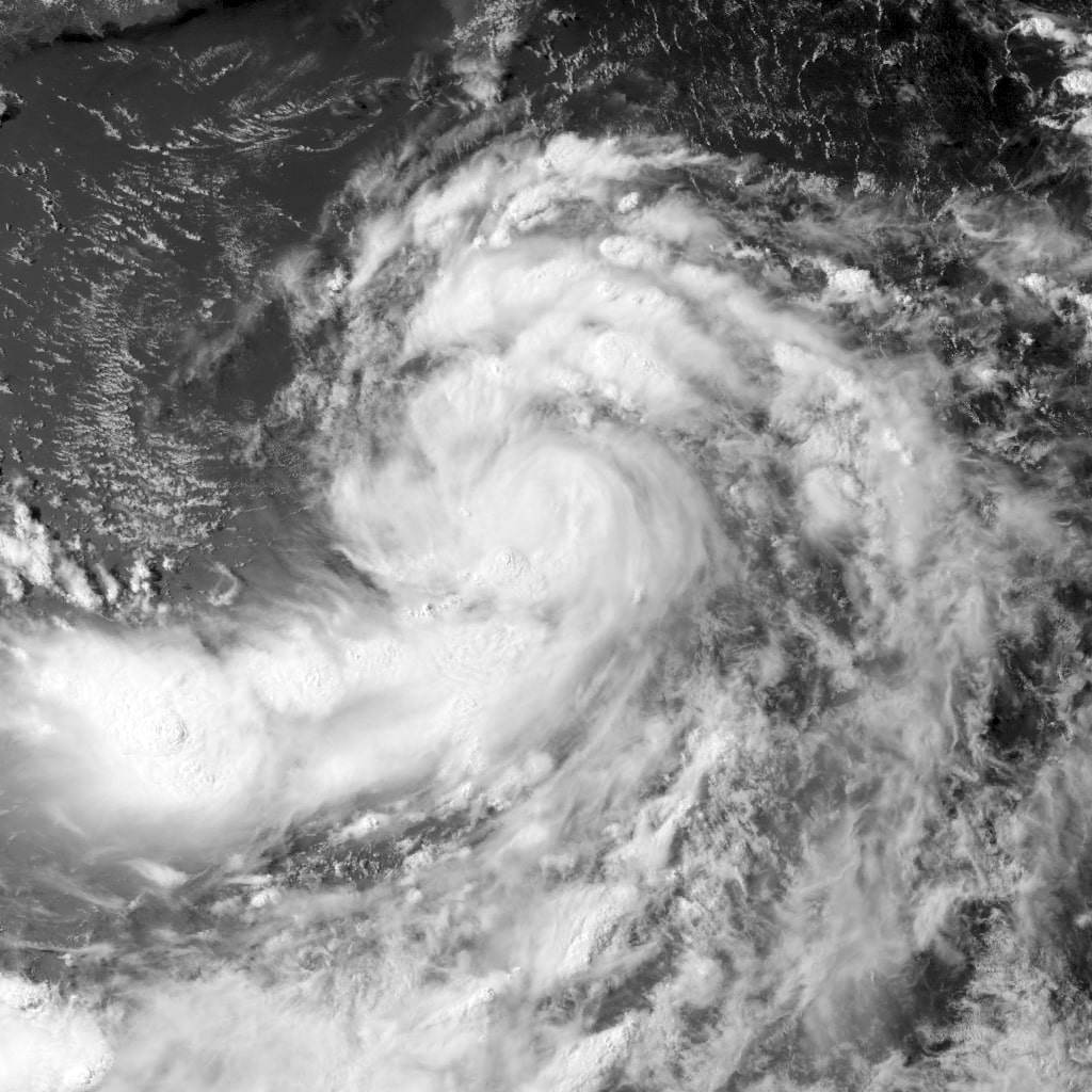 Severe Tropical Storm Nock-ten shortly after moving inland, Luzon